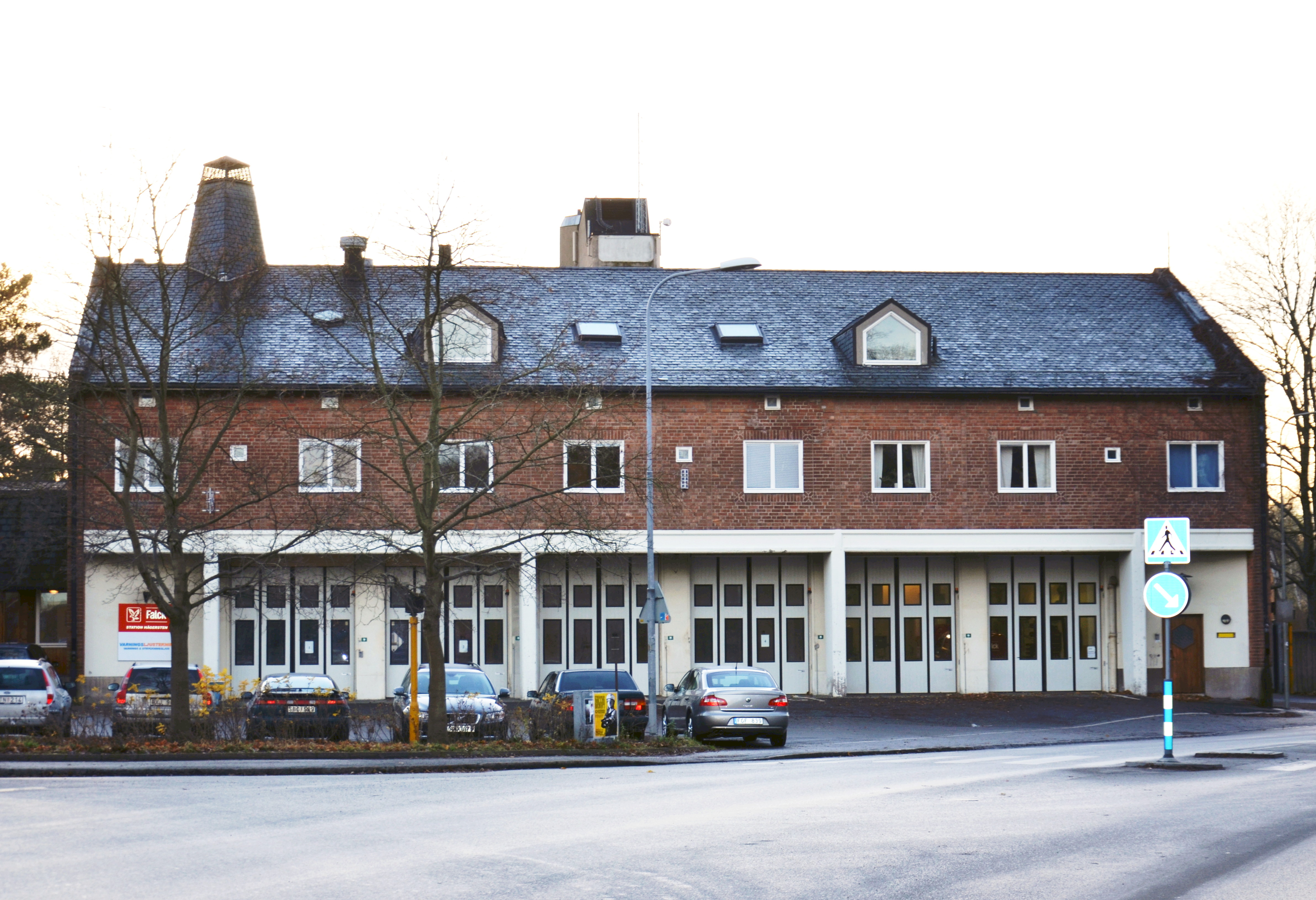 Gamla brandstationen i Midsommarkransen, Bäckvägen 1